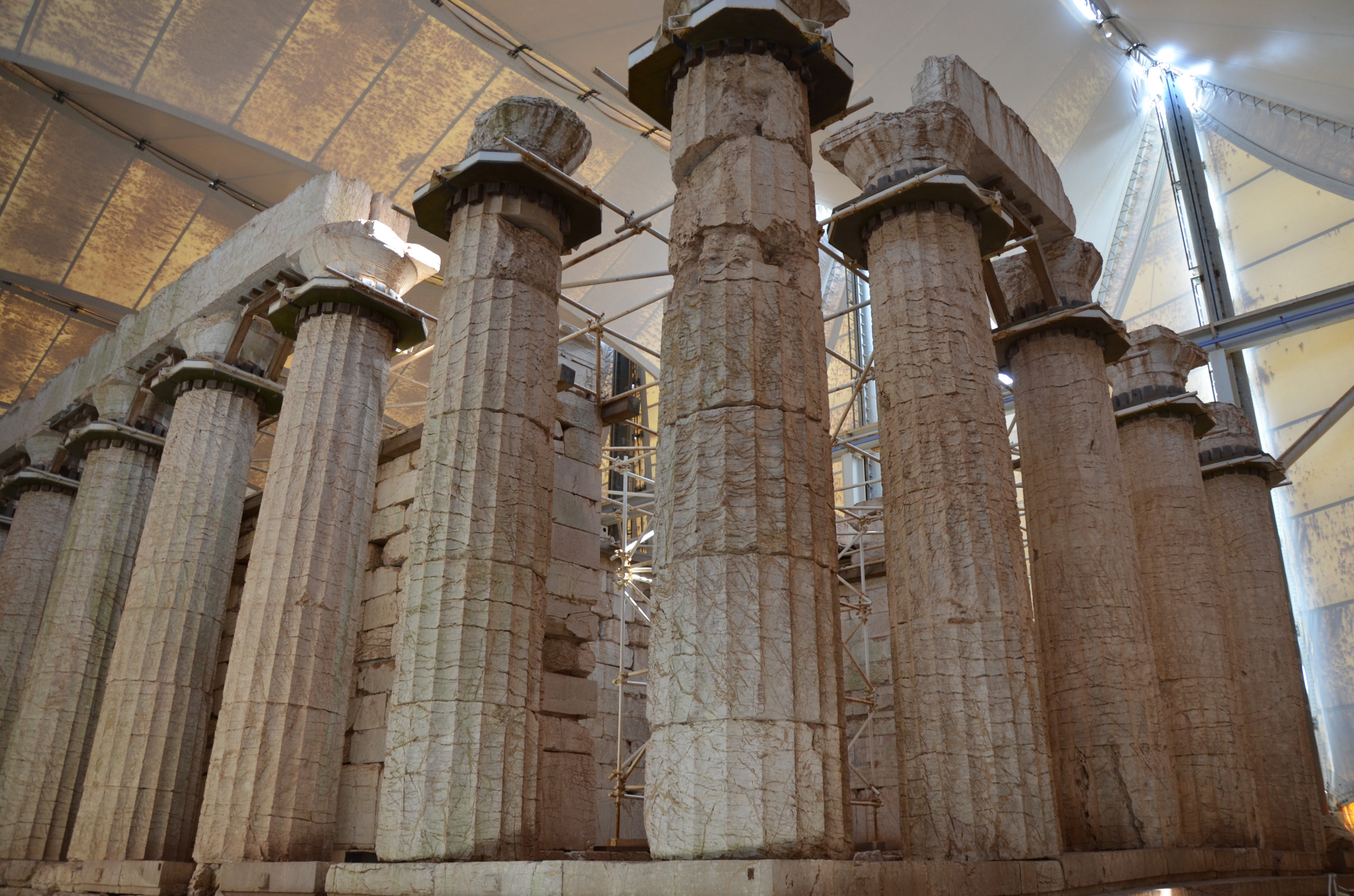 The Temple of Apollo Epikourios at Bassae, south-east corner and Opisthodomos, Arcadia, Greece